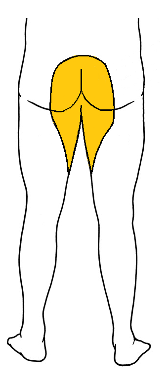 Diagram of lower limbs, posterior view showing approximate area of "saddle anesthesia" (yellow highlight)